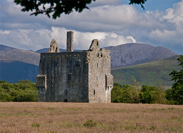 Castles of Munster: Ballymalis, Kerry (3)